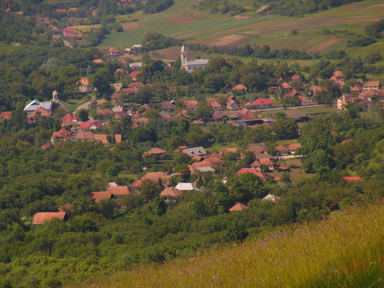 Treznea, view from Faget Hill. Picture taken 6/05/2005 by Cosmin Salajan (me) with a Sony DSC-F828 camera.